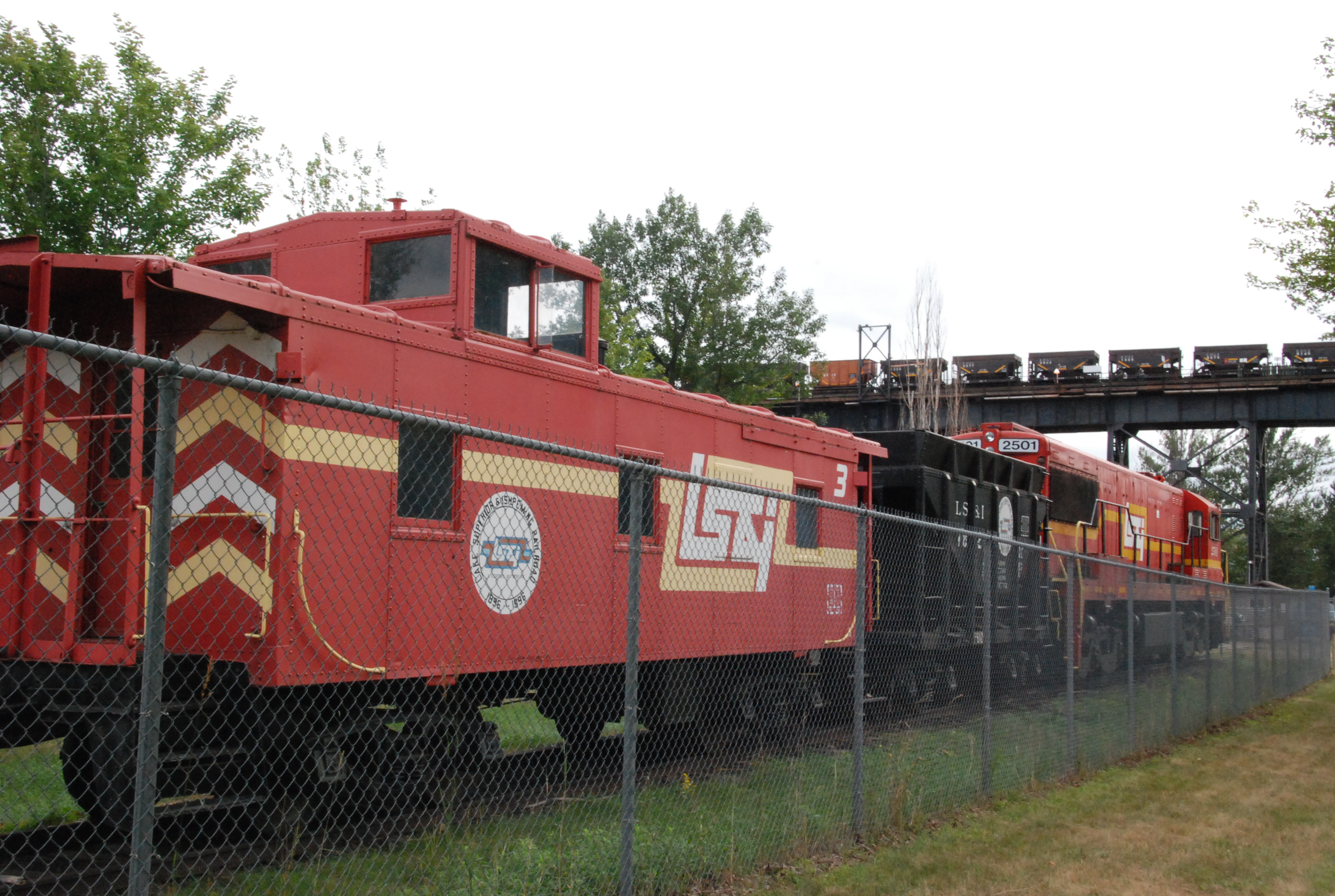 A string of empty ore hopper cars leave the ore dock.above the Lake Superior and Ishpeming Railroad static train display. Part of the LS&I operation in Marquette, Michigan, at the Presque Isle ore dock. The dock is owned by Cliffs Natural Resources, a successor to or subsidiary of the Cleveland Cliffs Mining Company, which has mines in the area. Taconite pellets (unrefined iron with a binding element) are loaded into ships here.